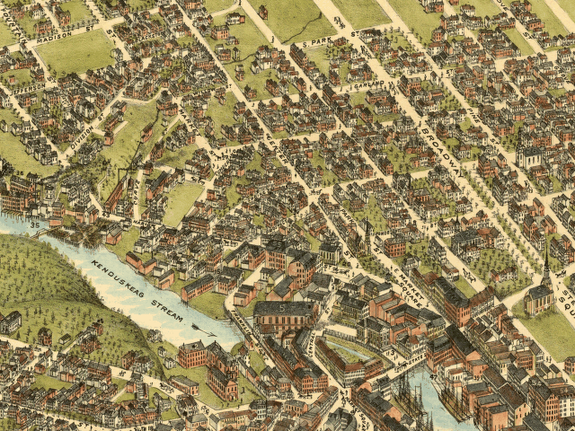 Cropped version of map on Library of Congress website. Bird's eye view of the City of Bangor, Penobscot County, Maine, 1875 / drawn by Augustus Koch. Koch, Augustus, b. 1840. CREATED/PUBLISHED Madison, Wis. : J.J. Stoner, [1875] (Chicago : Chas. Shober & Co.) NOTES Indexed for points of interest. Not drawn to scale. SUBJECTS Bangor (Me.)--Aerial views. United States--Maine--Bangor. RELATED NAMES Stoner, J. J. MEDIUM 1 view : col. (partly hand) ; 60 x 76 cm., on sheet 66 x 82 cm. CALL NUMBER G3734.B2A3 1875 .K6 REPOSITORY Library of Congress Geography and Map Division Washington, D.C. 20540-4650 USA DIGITAL ID g3734b pm002428